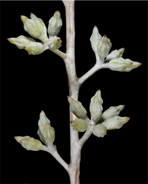 Flower buds of Eucalyptus clelandiorum at the juncion of Riverina-Sandstone Road and Evanston-Menzies Road, Western Australia